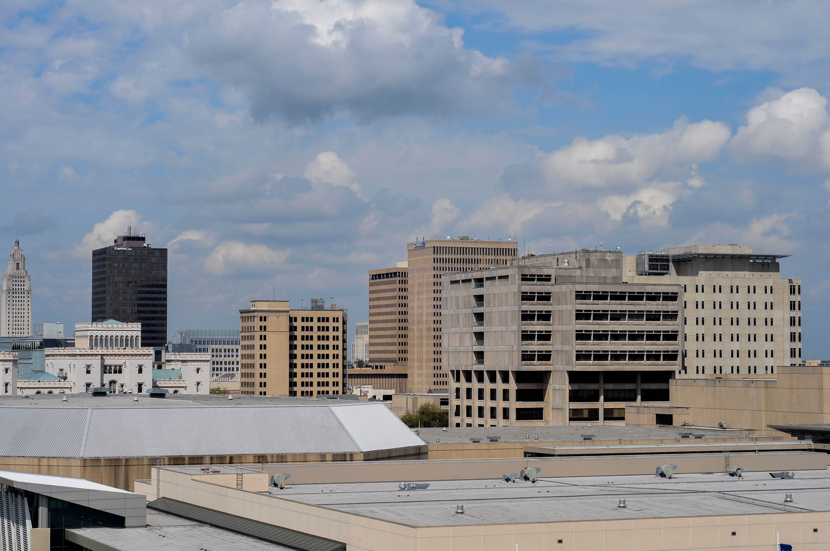 Baton Rouge, Louisiana